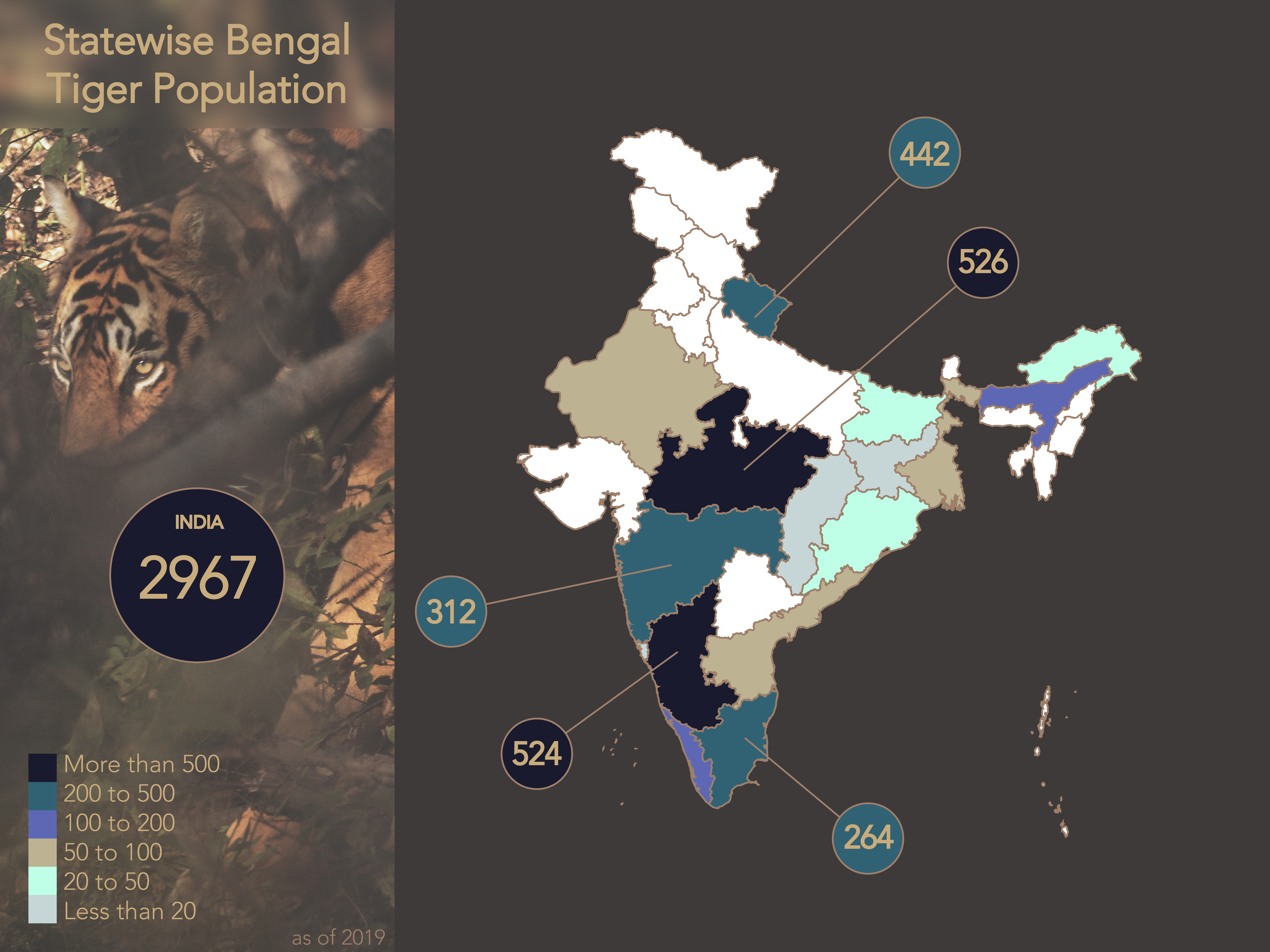 State wise Bengal Tiger Population India, 2019.